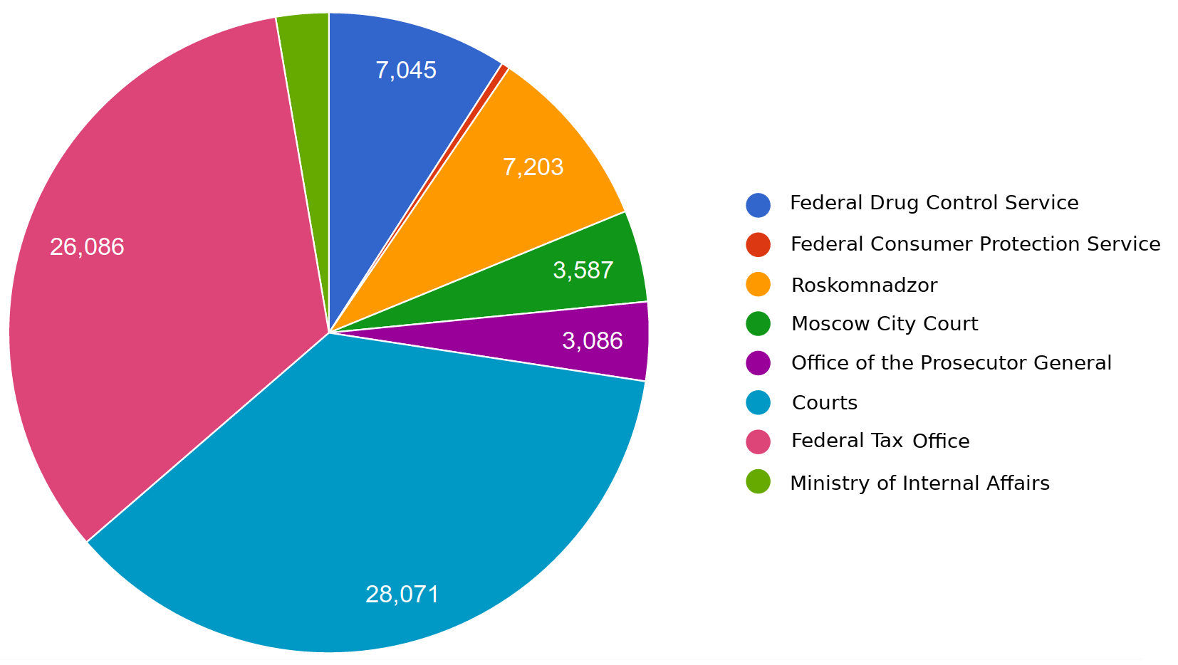 Number of entries in Russias federal internet blacklist as of June 2017, distribution by agencies